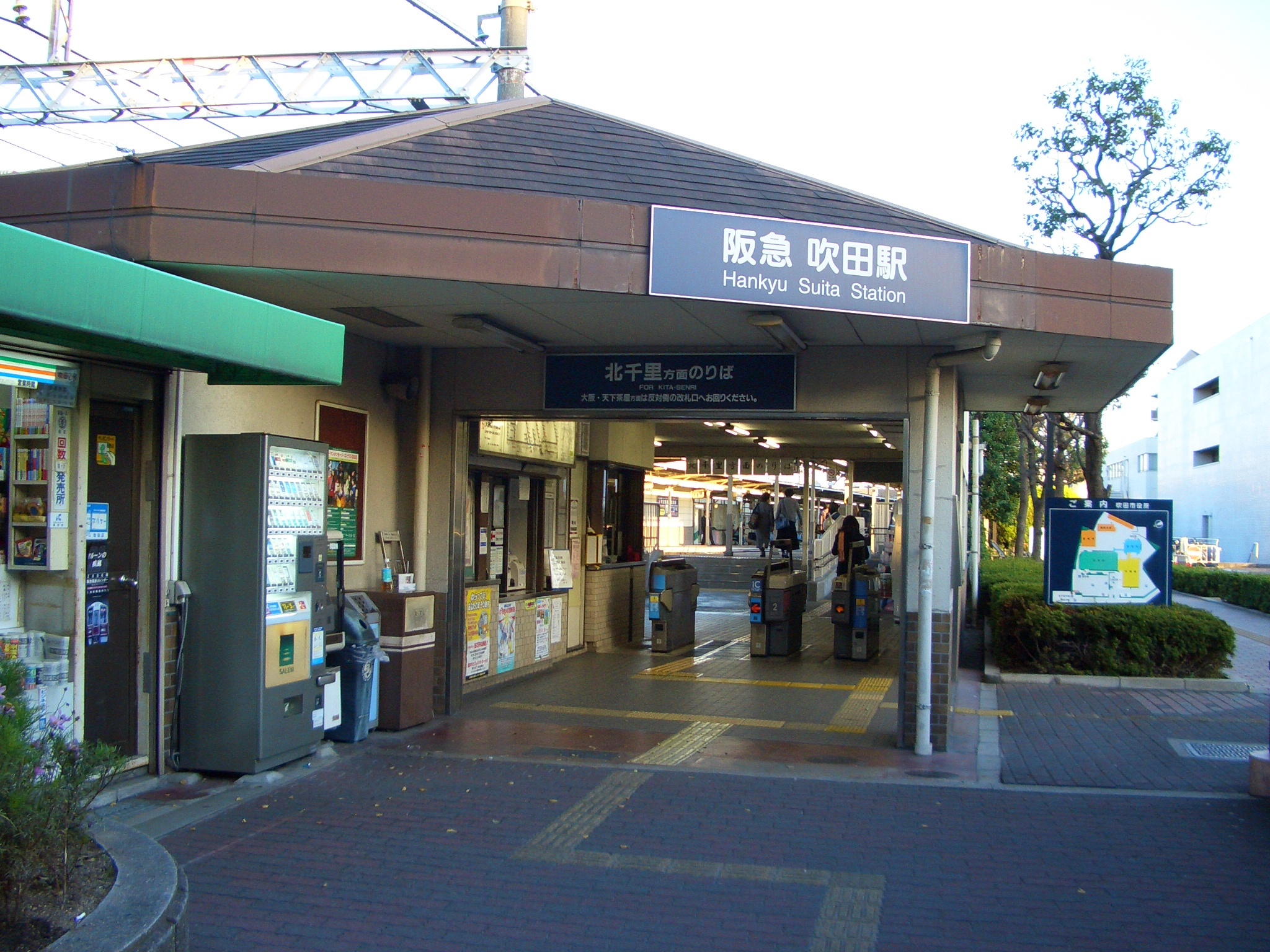 Hankyu Suita Station in Suita City, Osaka Prefecture, Japan